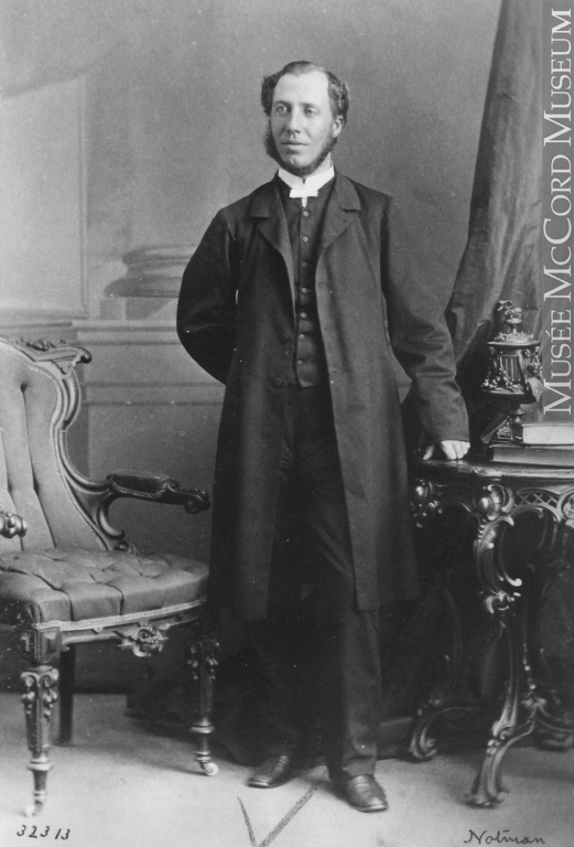 Photograph Reverend Mr. Briggs, Montreal, QC, 1868 William Notman (1826-1891) 1868, 19th century Silver salts on paper mounted on paper - Albumen process 8.5 x 5.6 cm Purchase from Associated Screen News Ltd. I-32313.1 © McCord Museum, CC 2.5 (Canada)